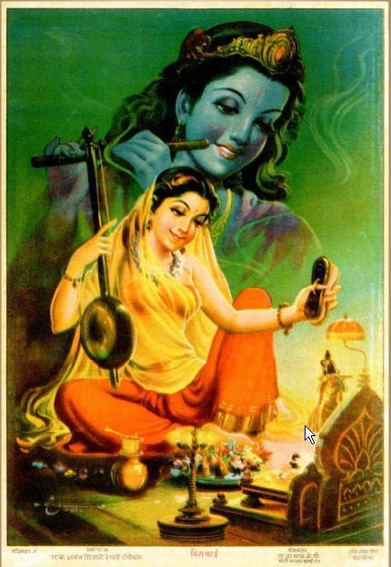 From Baroda Art Gallery